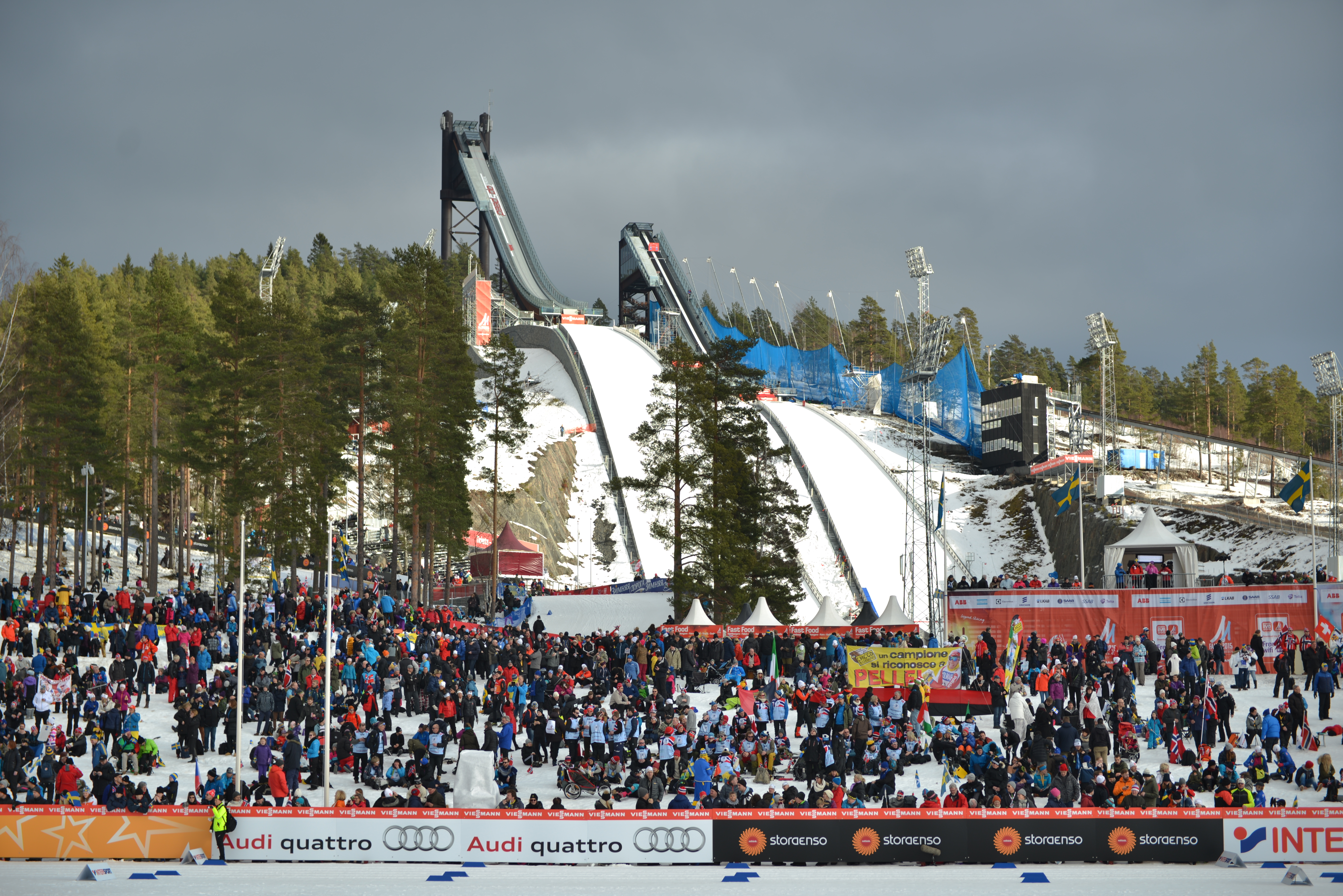 Audience and the ski jumping hills at the FIS Nordic World Ski Championships 2015 in Falun